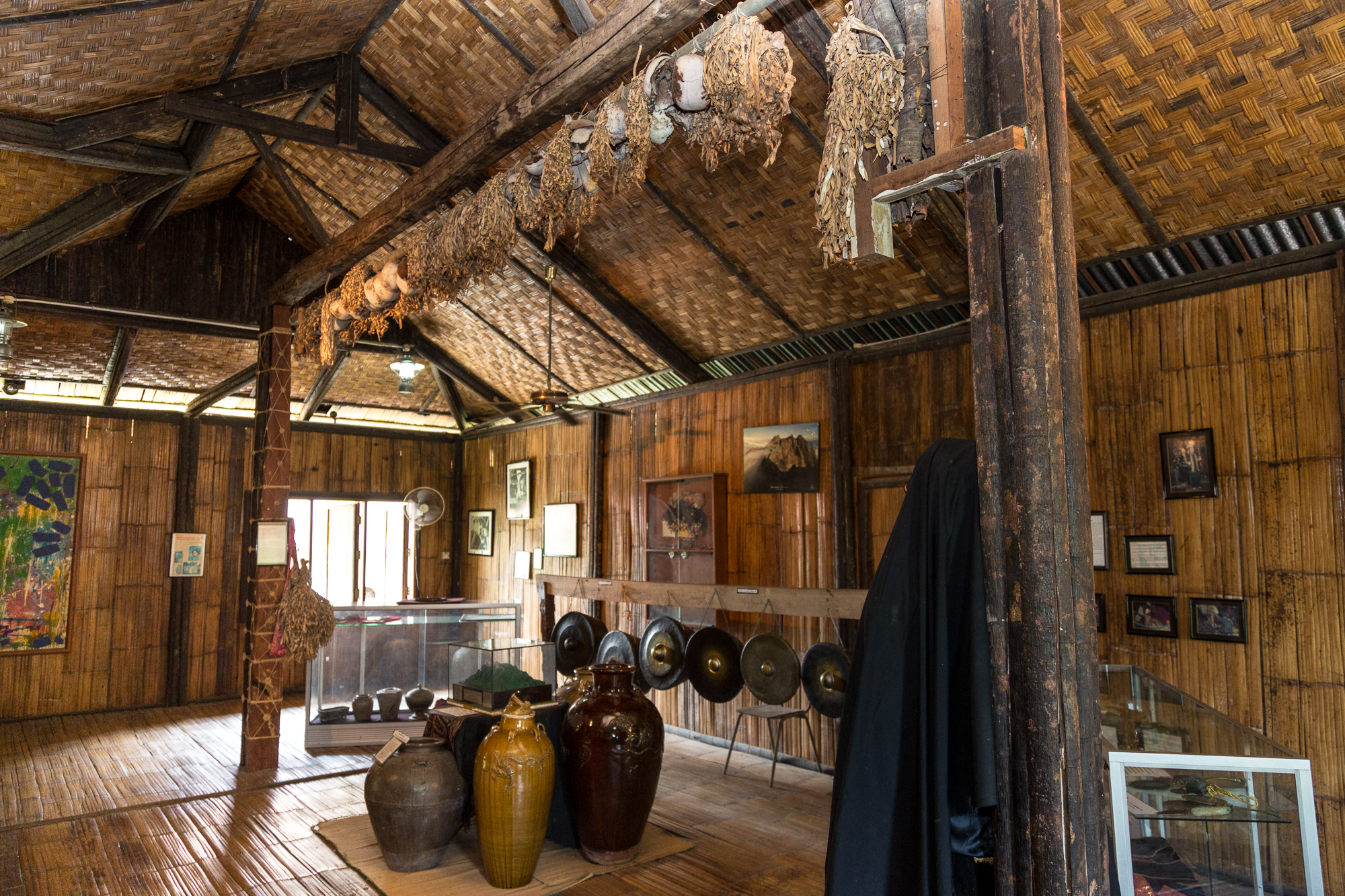 Kg. Kuai Kandazon, Penampang, Sabah: Monsopiad House of Skulls; par tof the Monsopiad Cultural Village